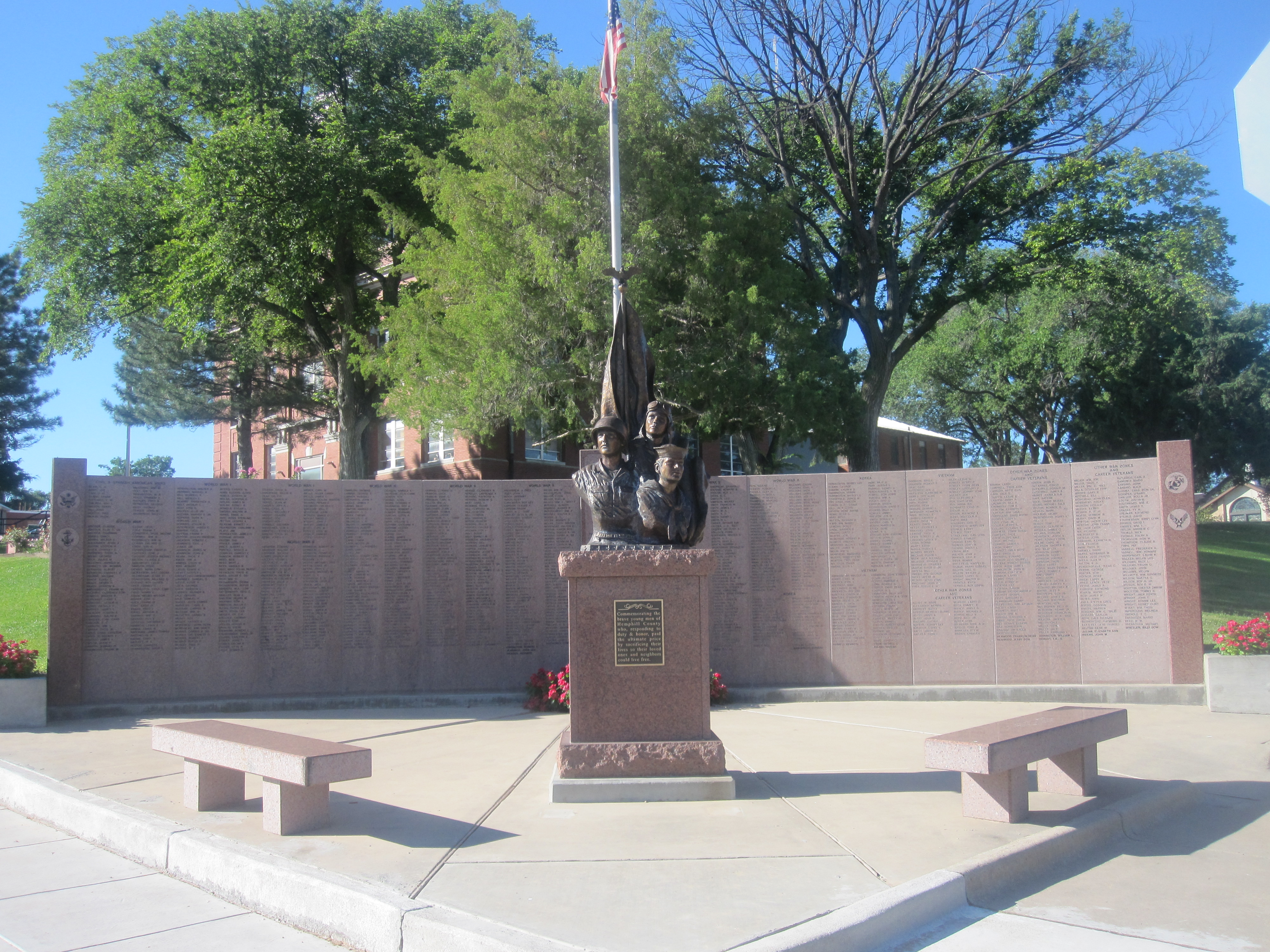 I took photo with Canon camera in Canadian, TX.